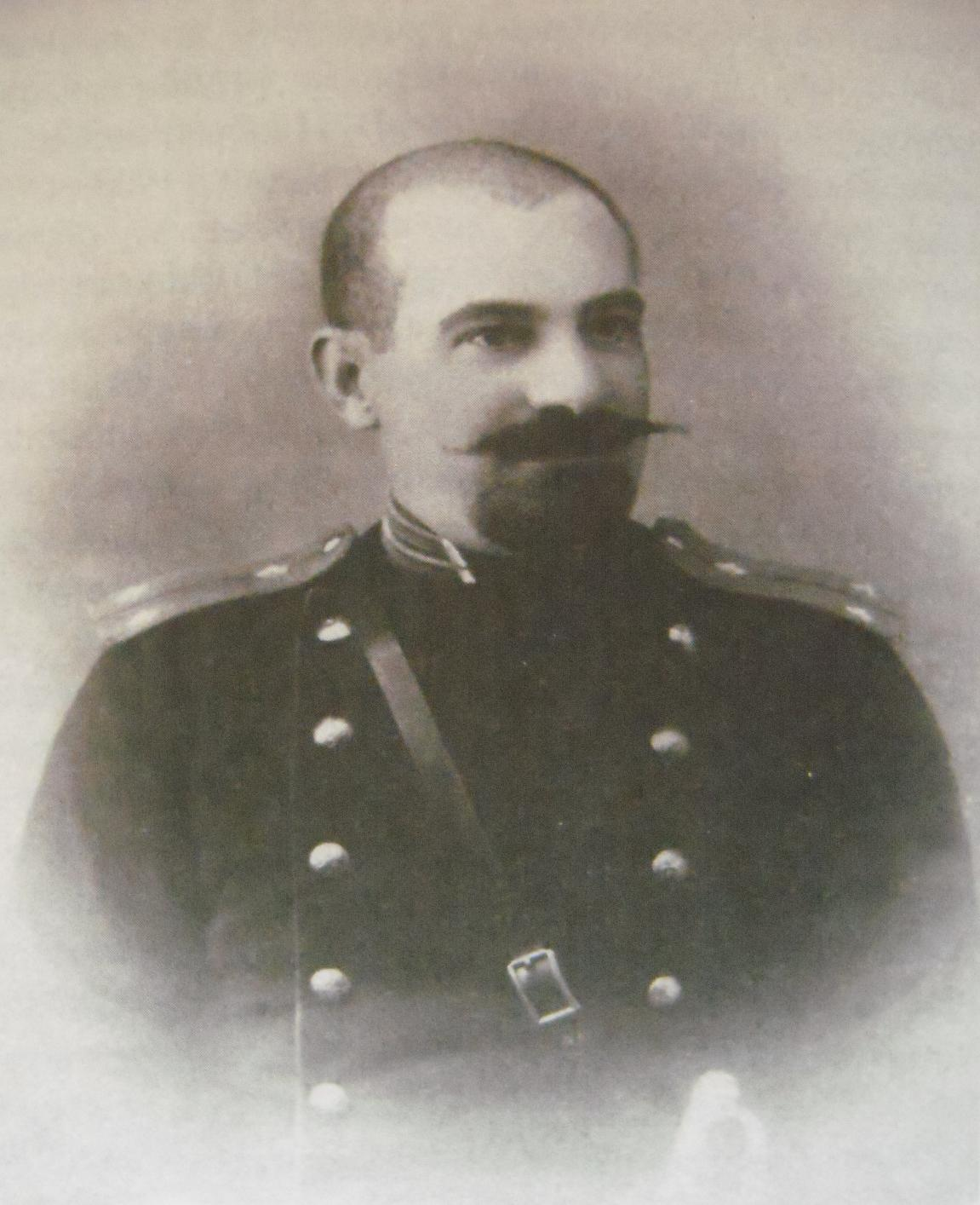 Portrait of Bulgarian officer Stoycho Garufalov (1868-1924)